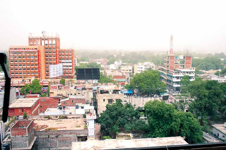 Rooftop view of Allahabad